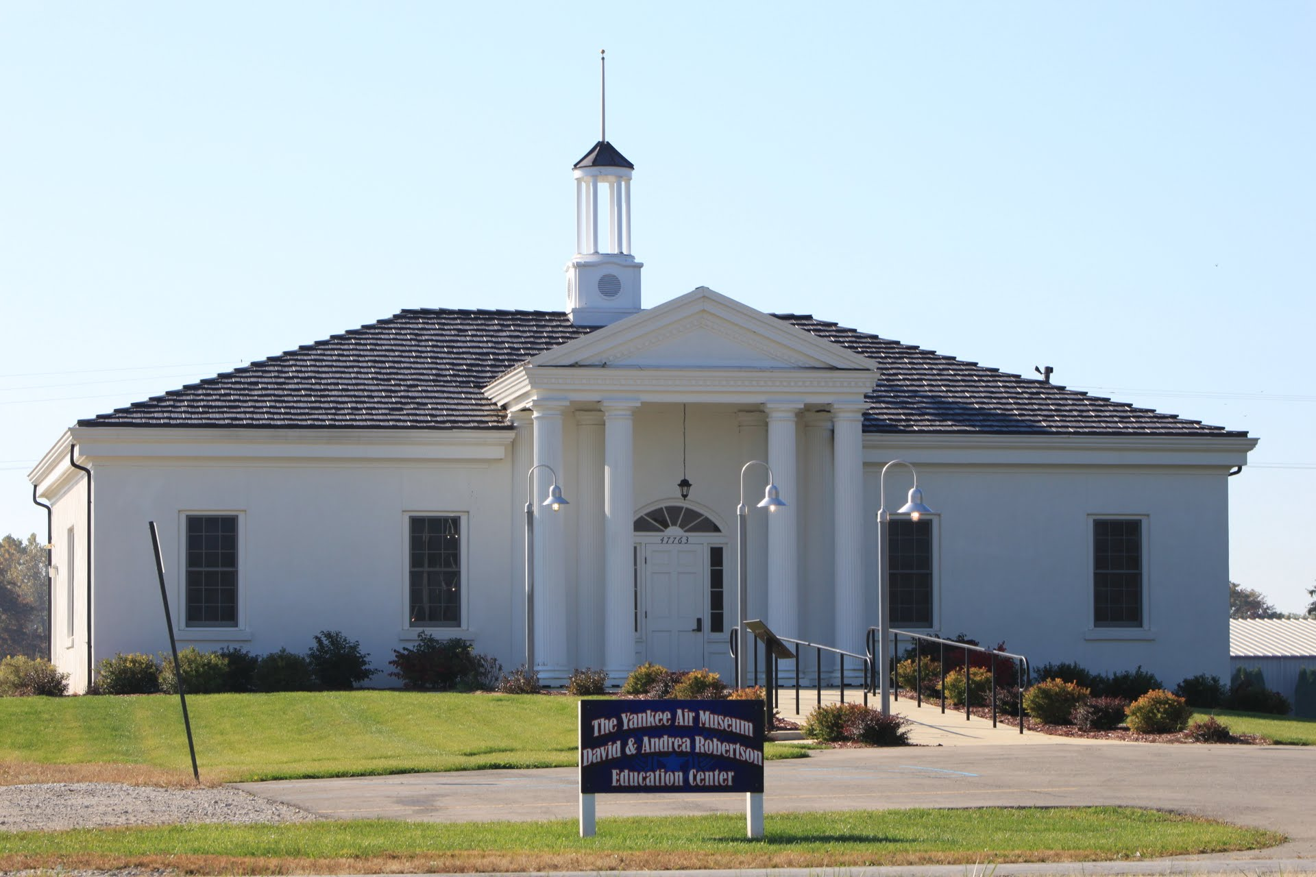 Yankee Air Force Education Center, 47763 A Street, Willow Run Airport, Ypsilanti Township, Michigan